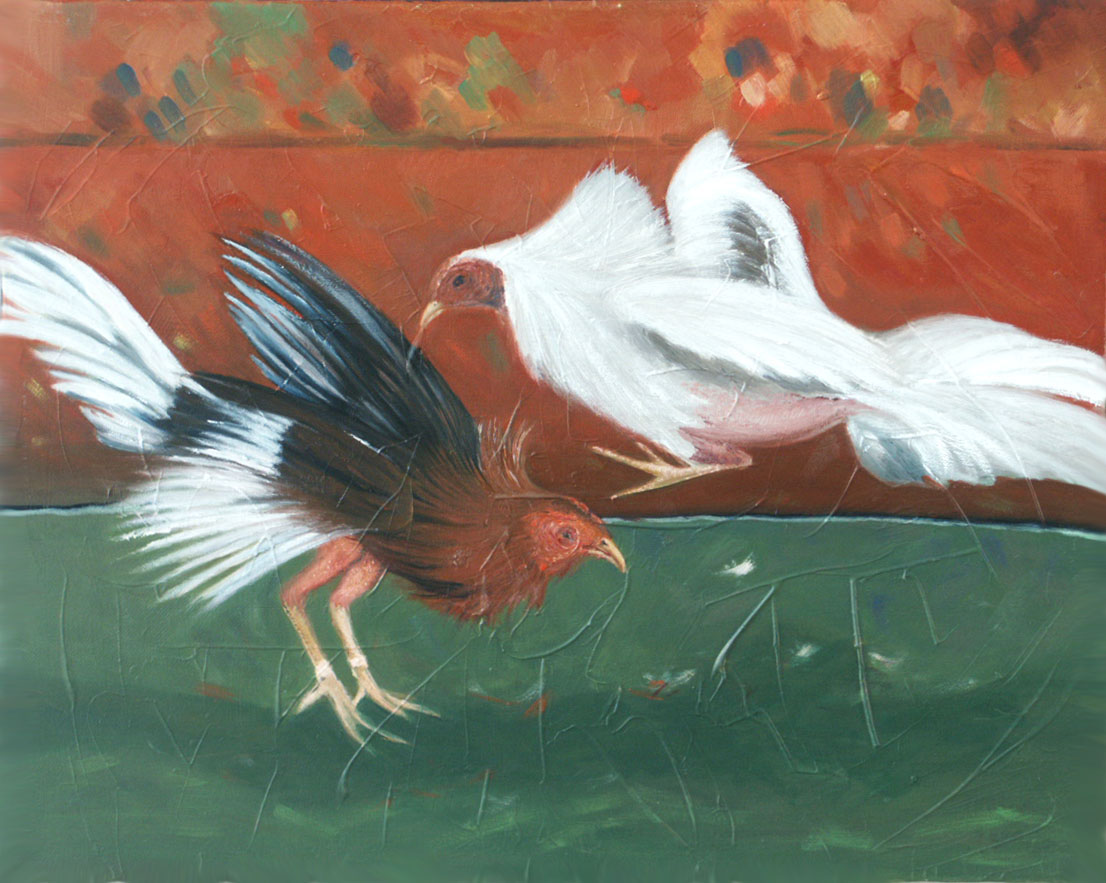 A painting of two roosters. fighting.